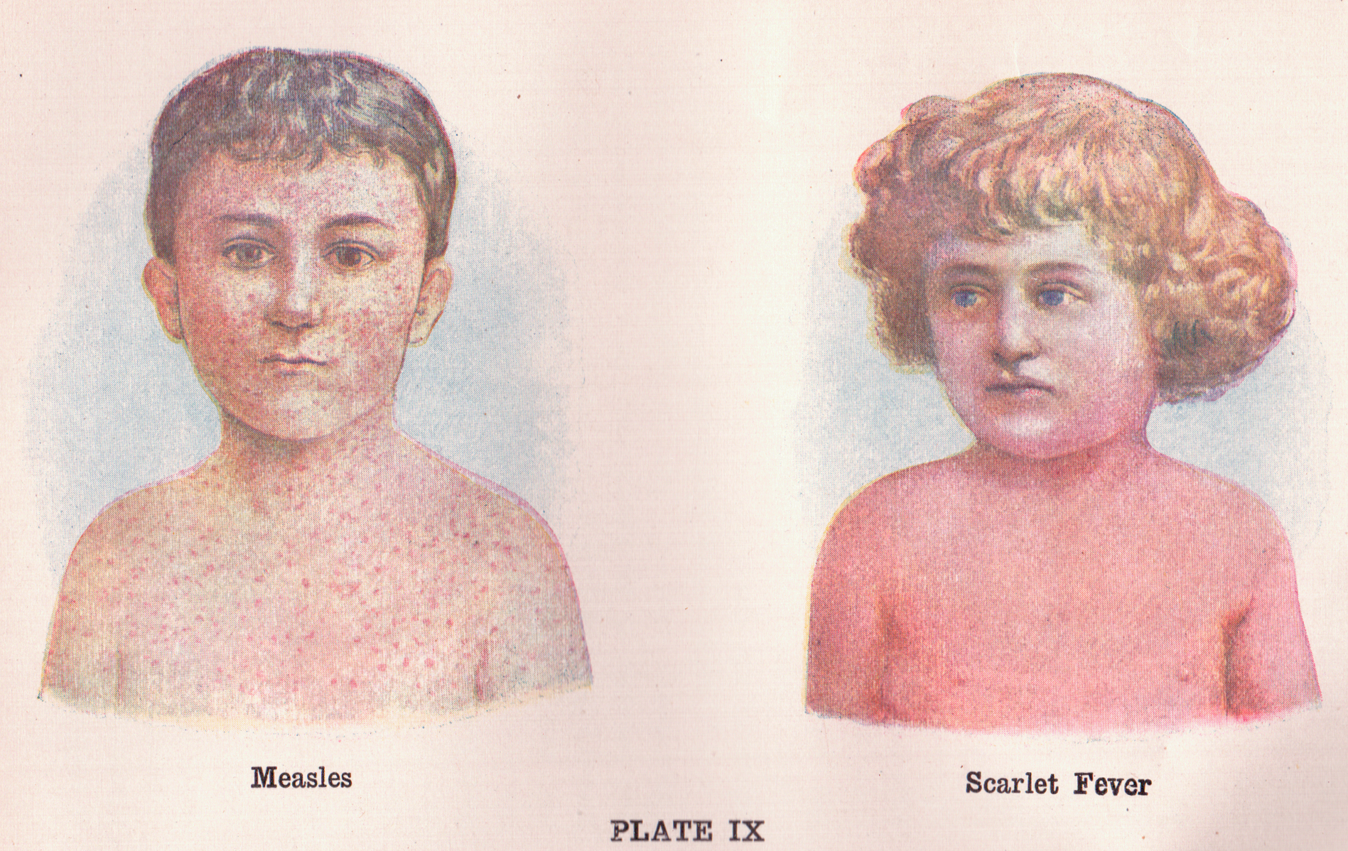 Illustrations of children with Measles and Scarlet Fever